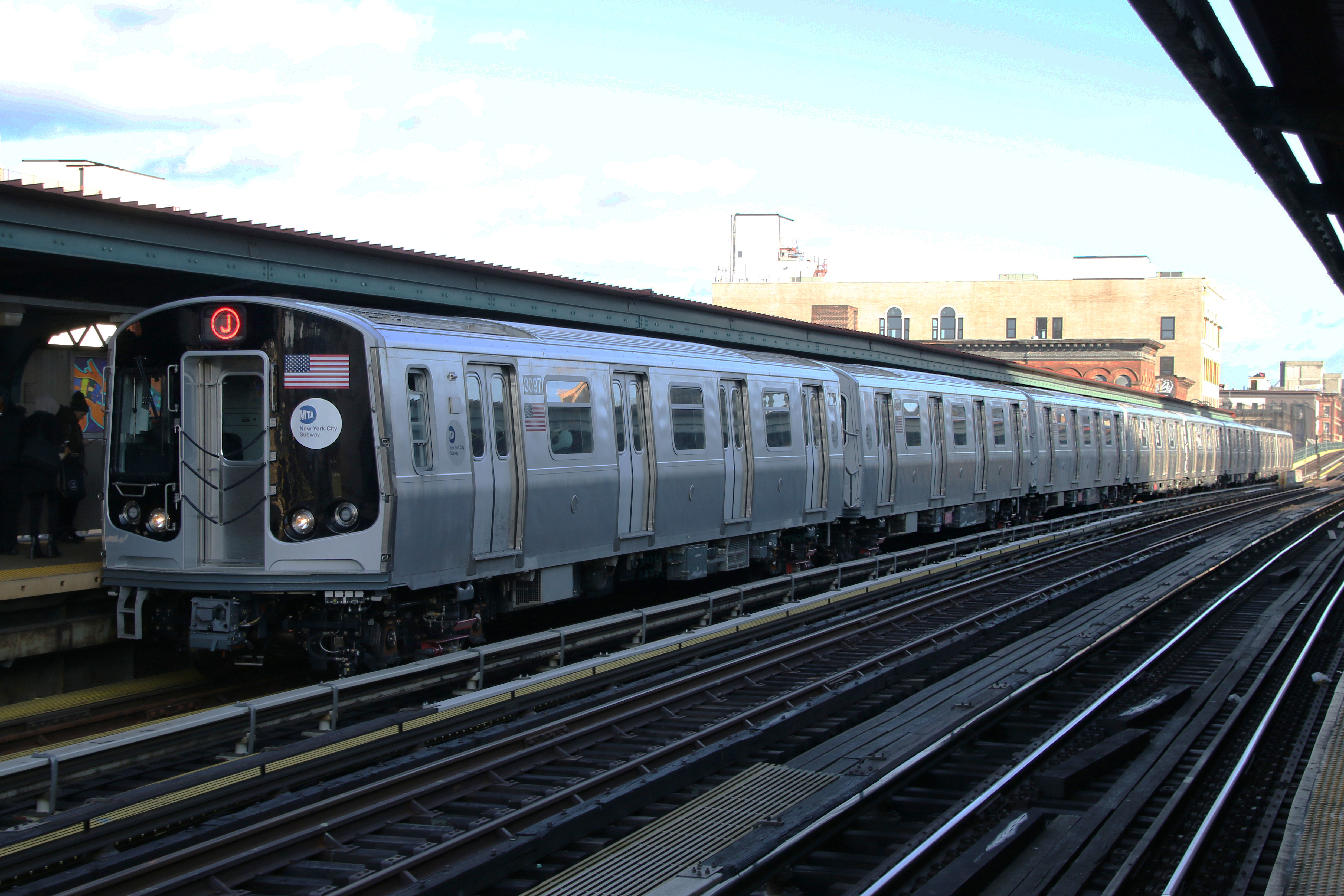 Jamaica Center-bound MTA NYC Subway J train of Bombardier Transportation R179 cars arriving at Flushing Ave.